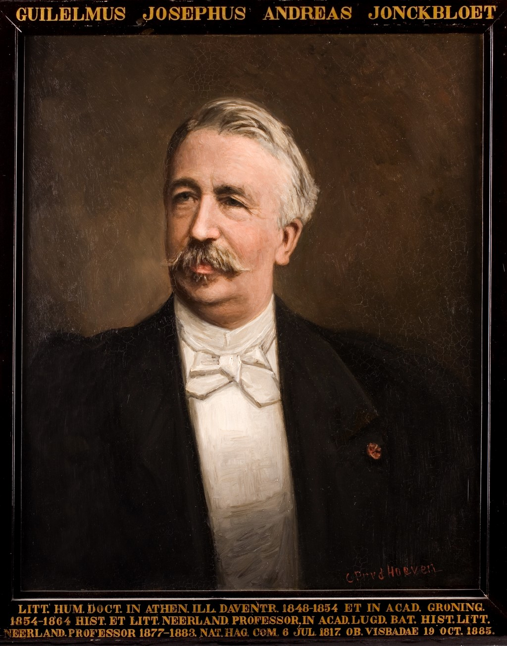 Portrait of Willem Jozef Andries Jonckbloet (1817-1885), professor at Leiden University